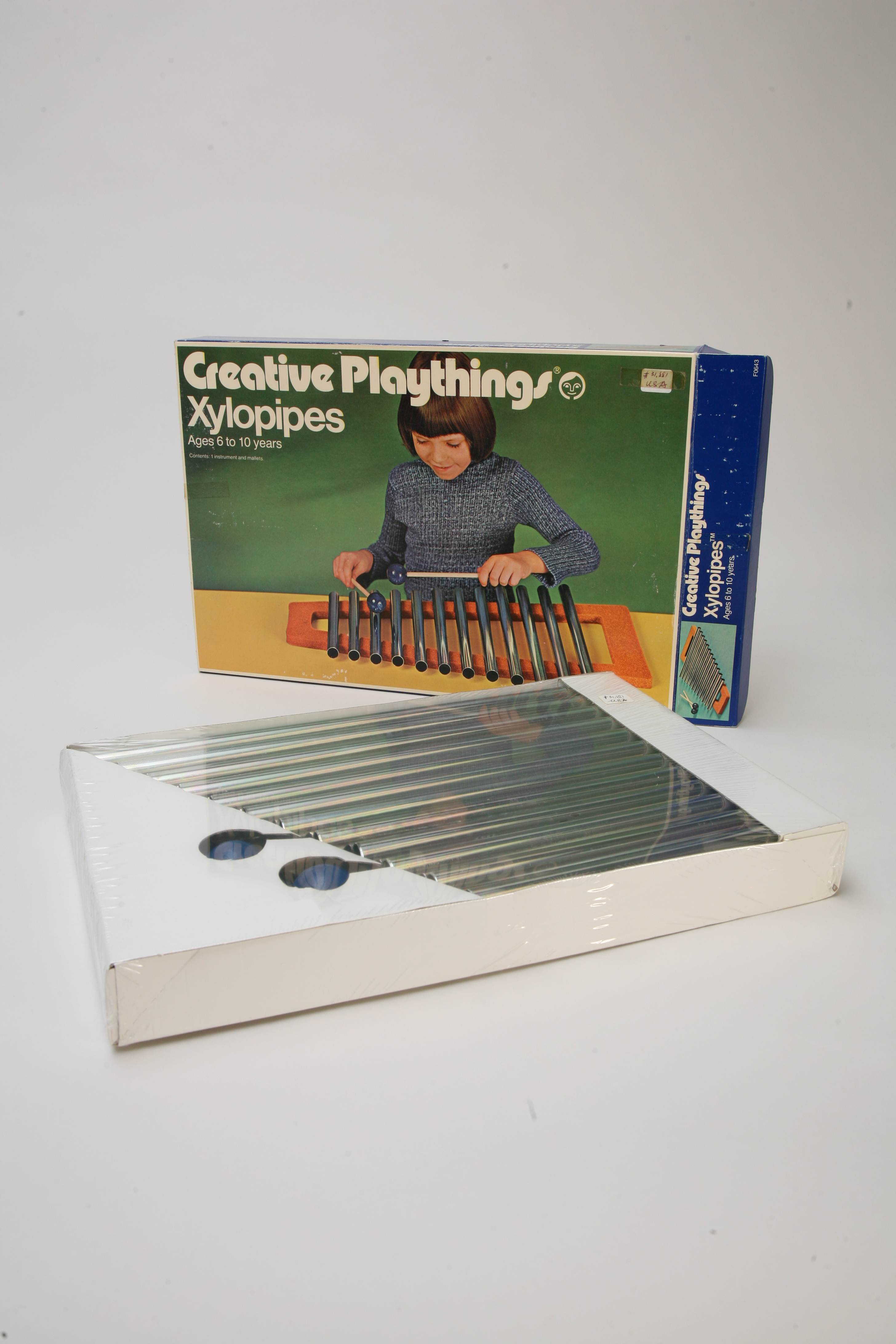 Creative Playthings xylophone, still in unopened original packaging in the permanent collection of The Children’s Museum of Indianapolis